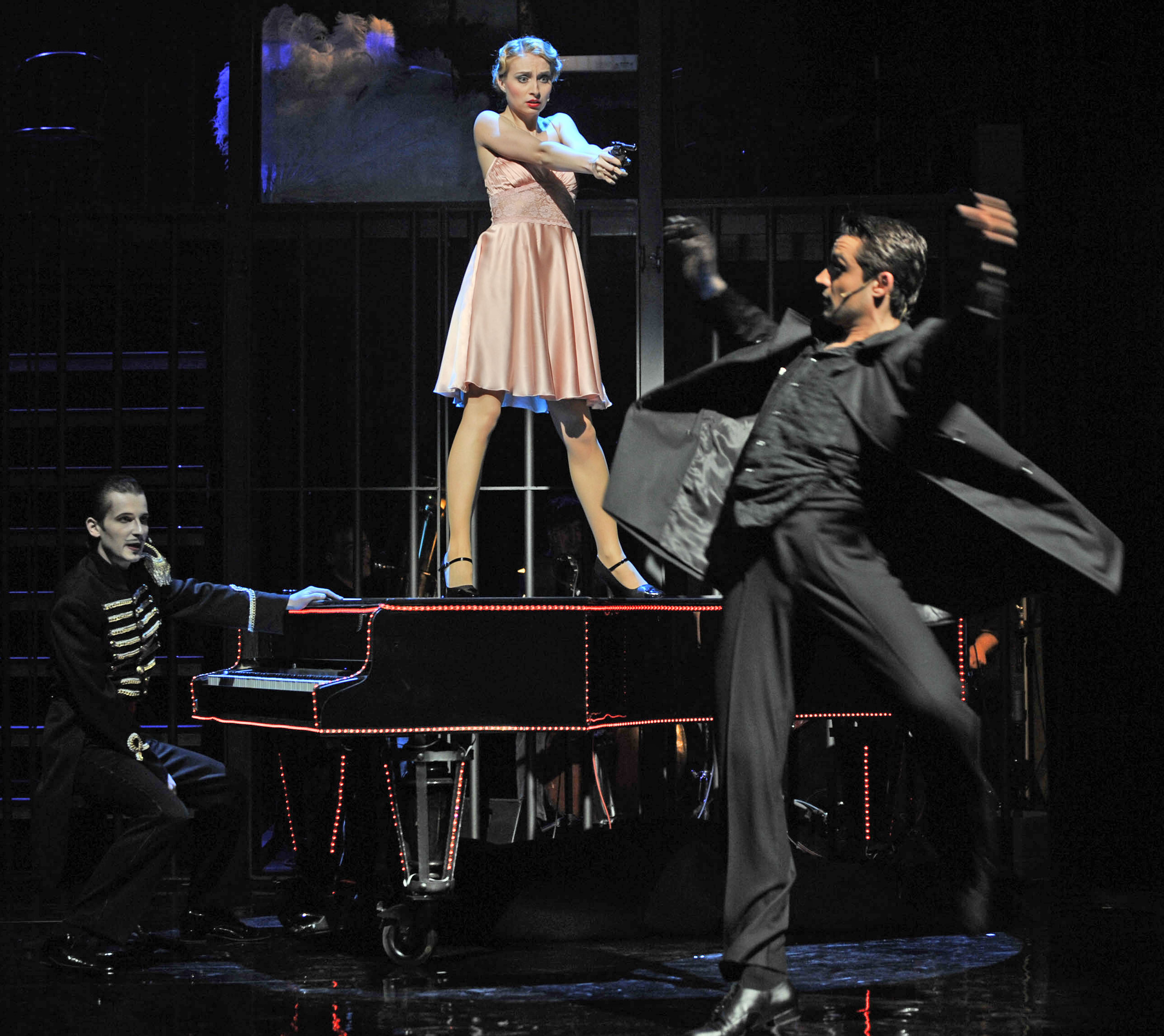 Musical Chicago by Městské divadlo Brno (from the left Vojtěch Blahuta, Ivana Vaňková, Aleš Slanina)